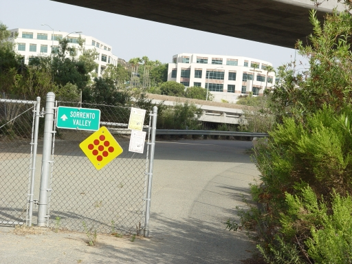 gate at north end of closed section of Sorrento Valley Road at Los Penasquitos Lagoon